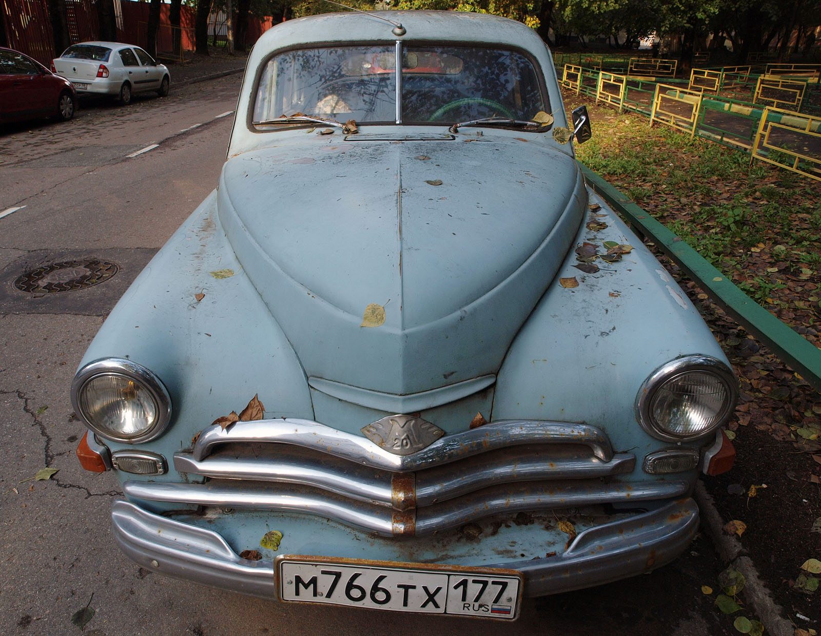 GAZ Pobeda, Moscow